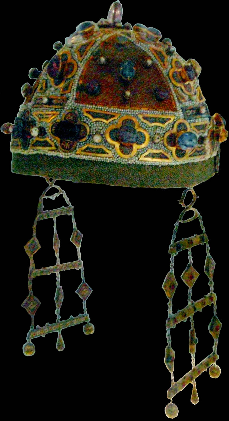 Crown of Constance of Aragon in the treasury of the cathedral of Palermo.